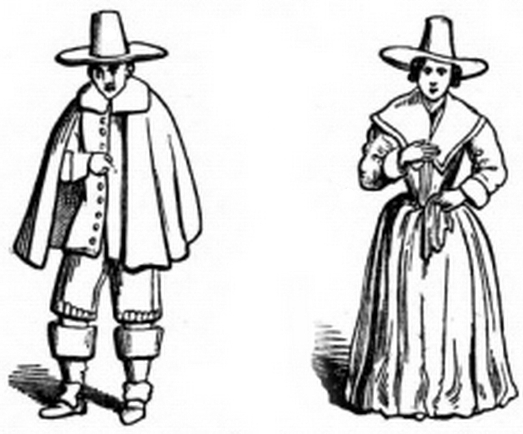 The title is the same as the image caption above and in "Cassell's Illustrated History of England, Volume 3". The number shown is the page number. Follow the image link to the full book vol.3.